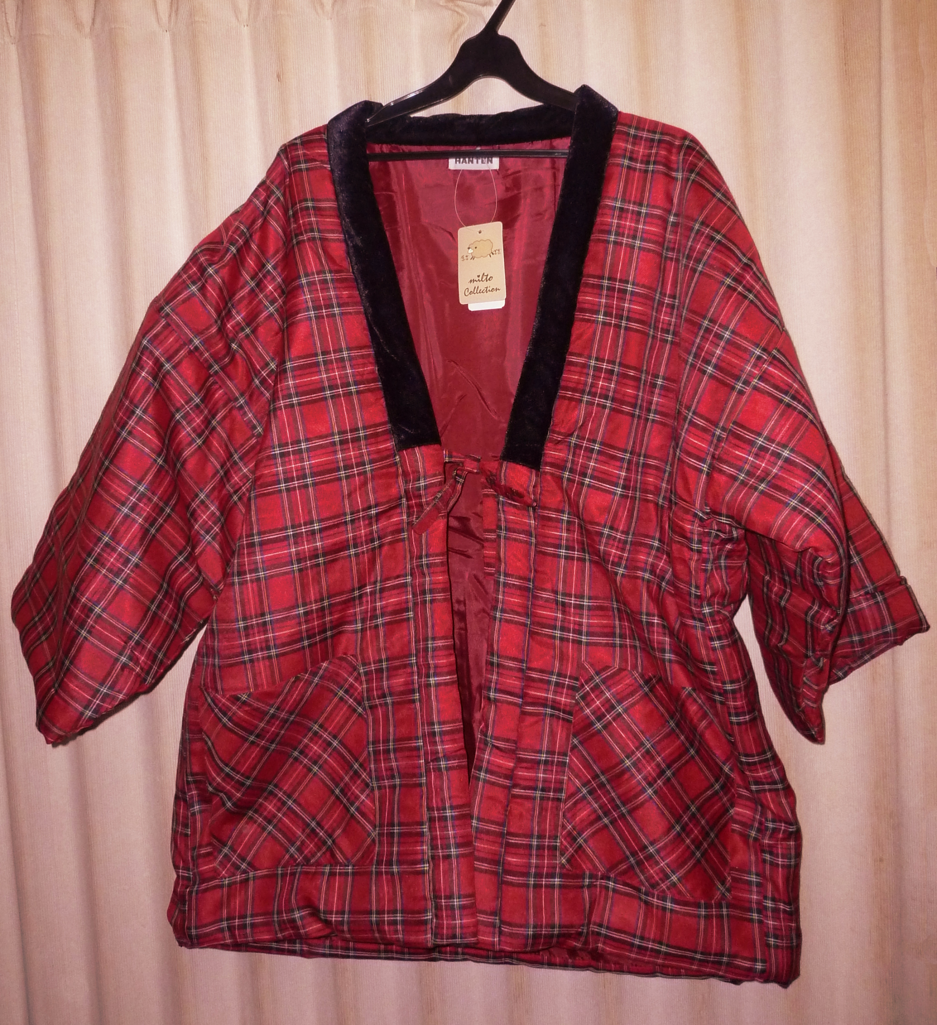 Hanten